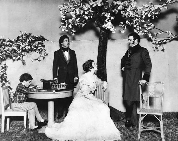 Photograph of a scene from the 1917 Broadway production of Peter Ibbetson